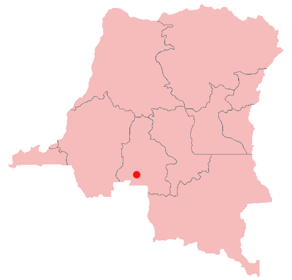 Tshikapa, Democratic Republic of the Congo Location Map; created with the GIMP. Made by User:Acntx.